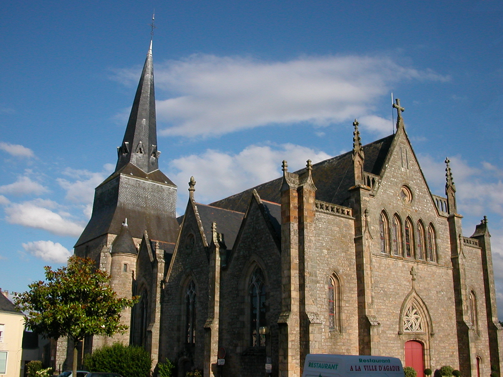 Saint-Hermeland Church of Saint-Herblain